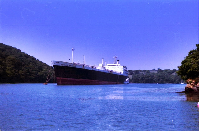 Methane Princess moored on the River Fal The River Fal is believed to be a Ria, that is a valley which has later been flooded due to the rise in sea level.